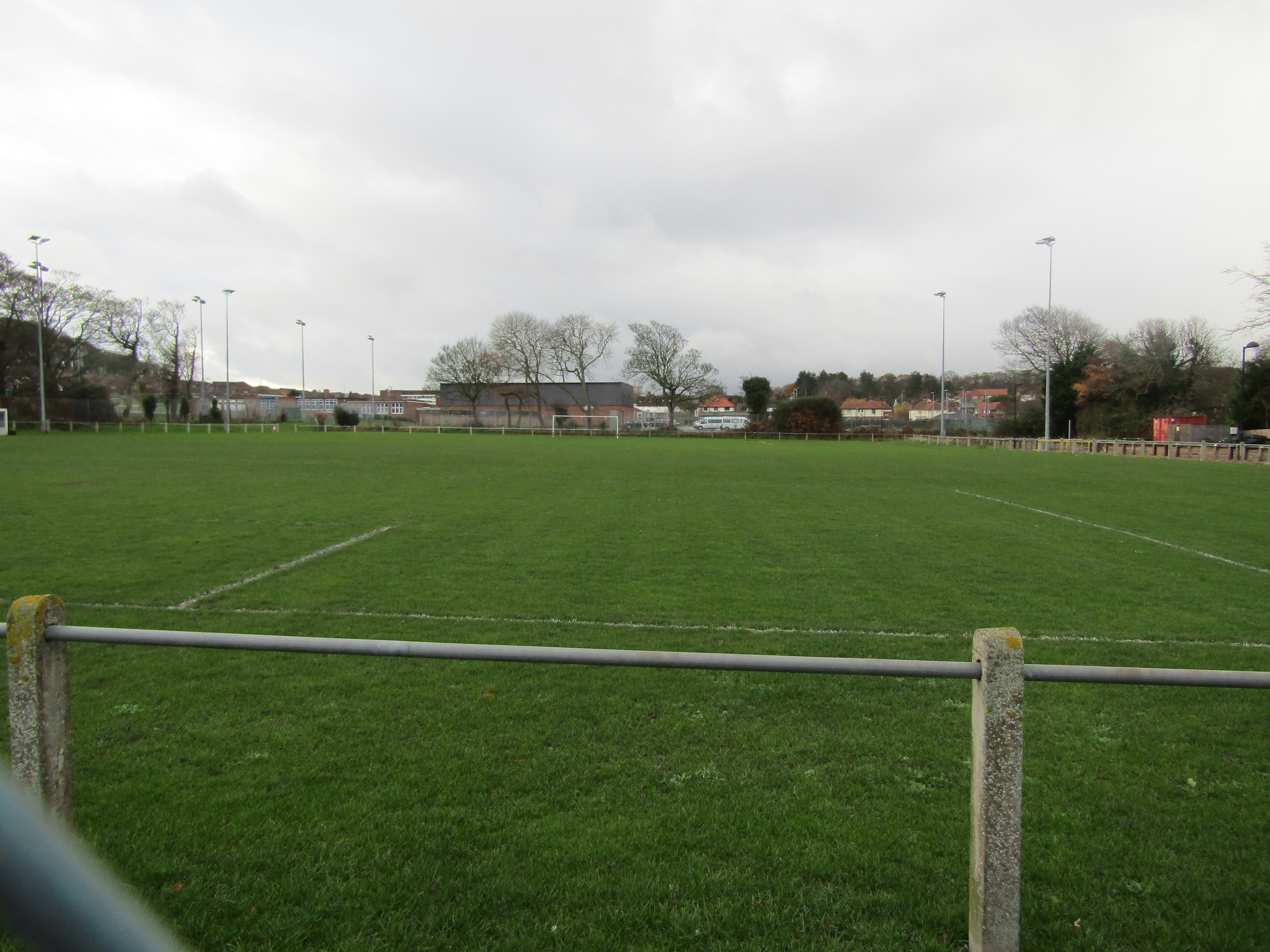 Looking across the pitch towards the west end at Cabbell park in the town of Cromer, Norfolk, England. This is the home ground of Cromer Town FC.